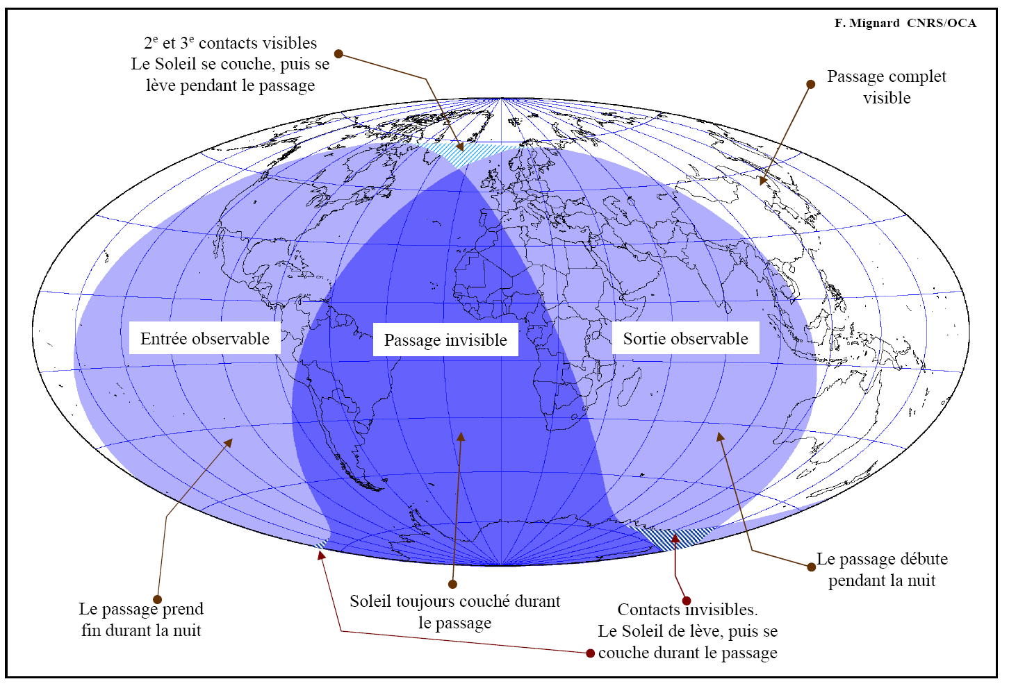 Visibility map for an Earth observer of the Venus transit of June 2012